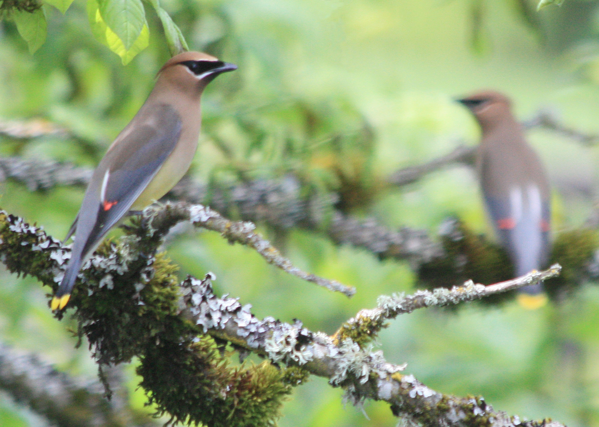 Photo by Kathy Munsel, Oregon department of Fish and Wildlife- One of Oregon's most efficient fruit-eaters and a perennial irritant to cherry, blueberry, and grape growers, the Cedar Waxwing is a sleek, social resident of mixed forests and urban areas throughout the state. Smooth, tan-brown plumage, a black mask with a mall head crest, red waxy wingtips, and a yellow-tiped tail give Cedar Waxwings a distinctive appearance. The breeding range of the Cedar Waxwing covers most of Oregon, except for the extensive conifer forests and expansive treeless areas with greater breeding populations reported in lowlands.